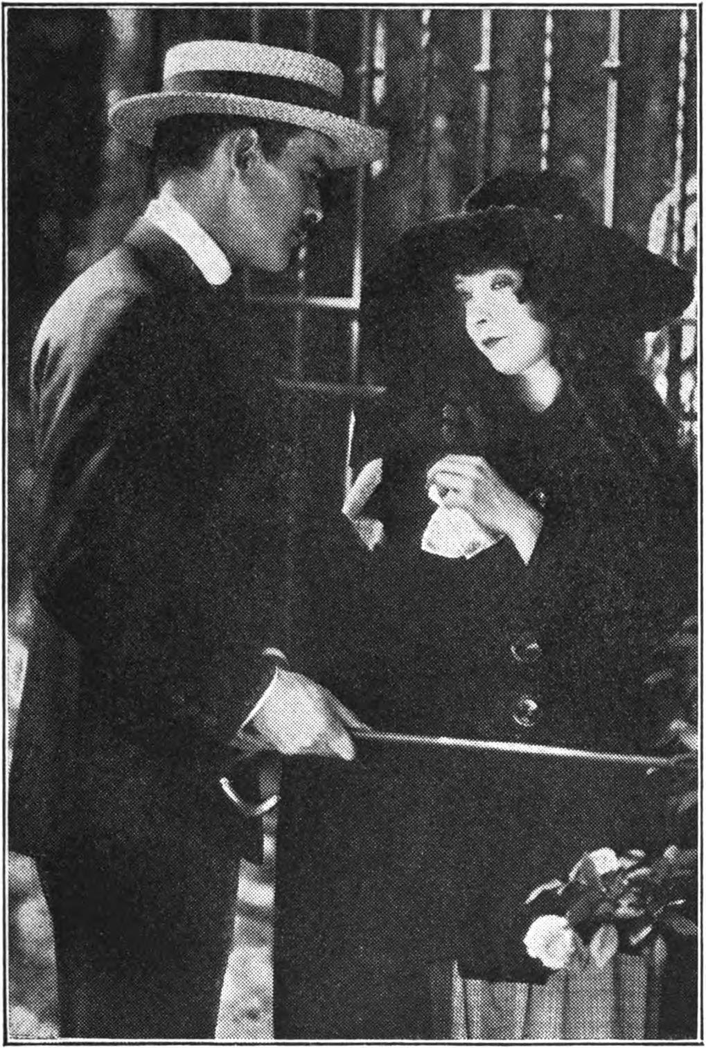 Photograph of Robert Harron and Lillian Gish while shooting The Greatest Question (1919) movie from the Screen acting (1921) book. Description under the image in the Screen acting book: Lillian Gish and the late Robert Harron in a love scene from The Greatest Question. Title at the "Illustrations" page (page XIII): Lillian Gish an the late Robert Harron